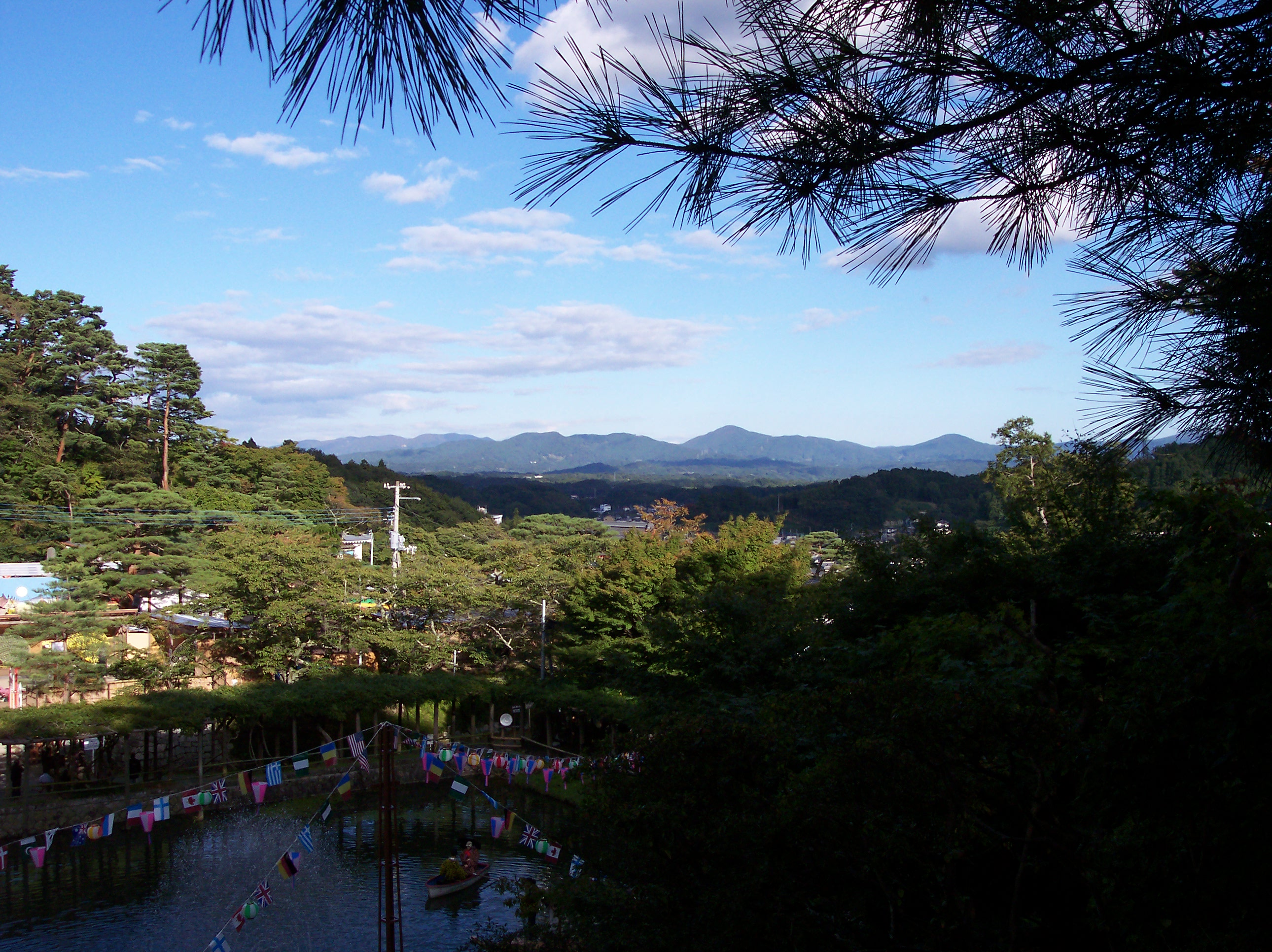 A view from Kasumigajo Park in Nihonmatsu, Fukushima Prefecture, Japan. Looking the east.